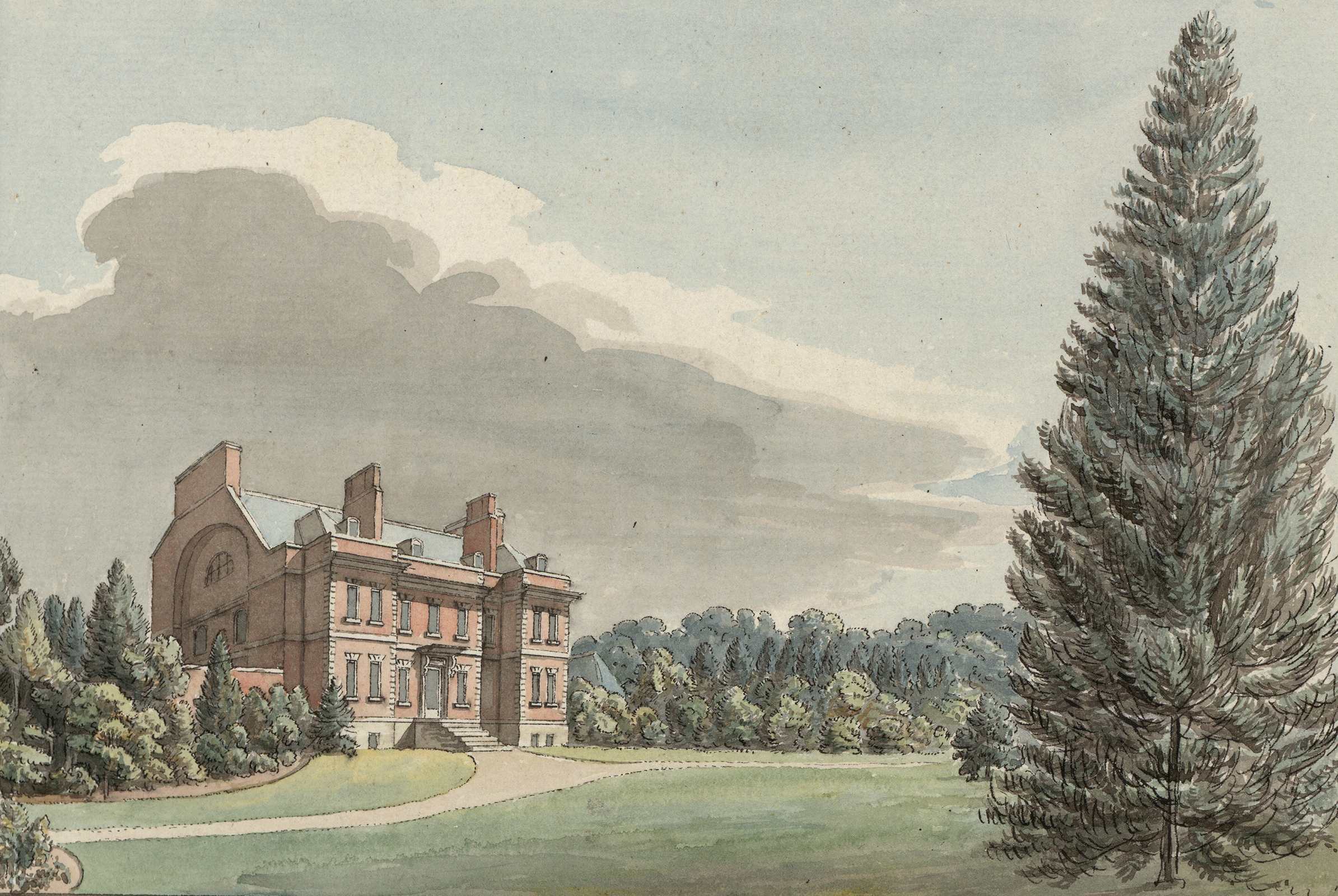 An image from a set of 8 extra-illustrated volumes of A tour in Wales by Thomas Pennant (1726-1798) that chronicle the three journeys he made through Wales between 1773 and 1776. These volumes are unique because they were compiled for Pennant's own library at Downing. This edition was produced in 1781. The volumes include a number of original drawings by Moses Griffiths, Ingleby and other well known artists of the period. Thomas Pennant (1726-1798)